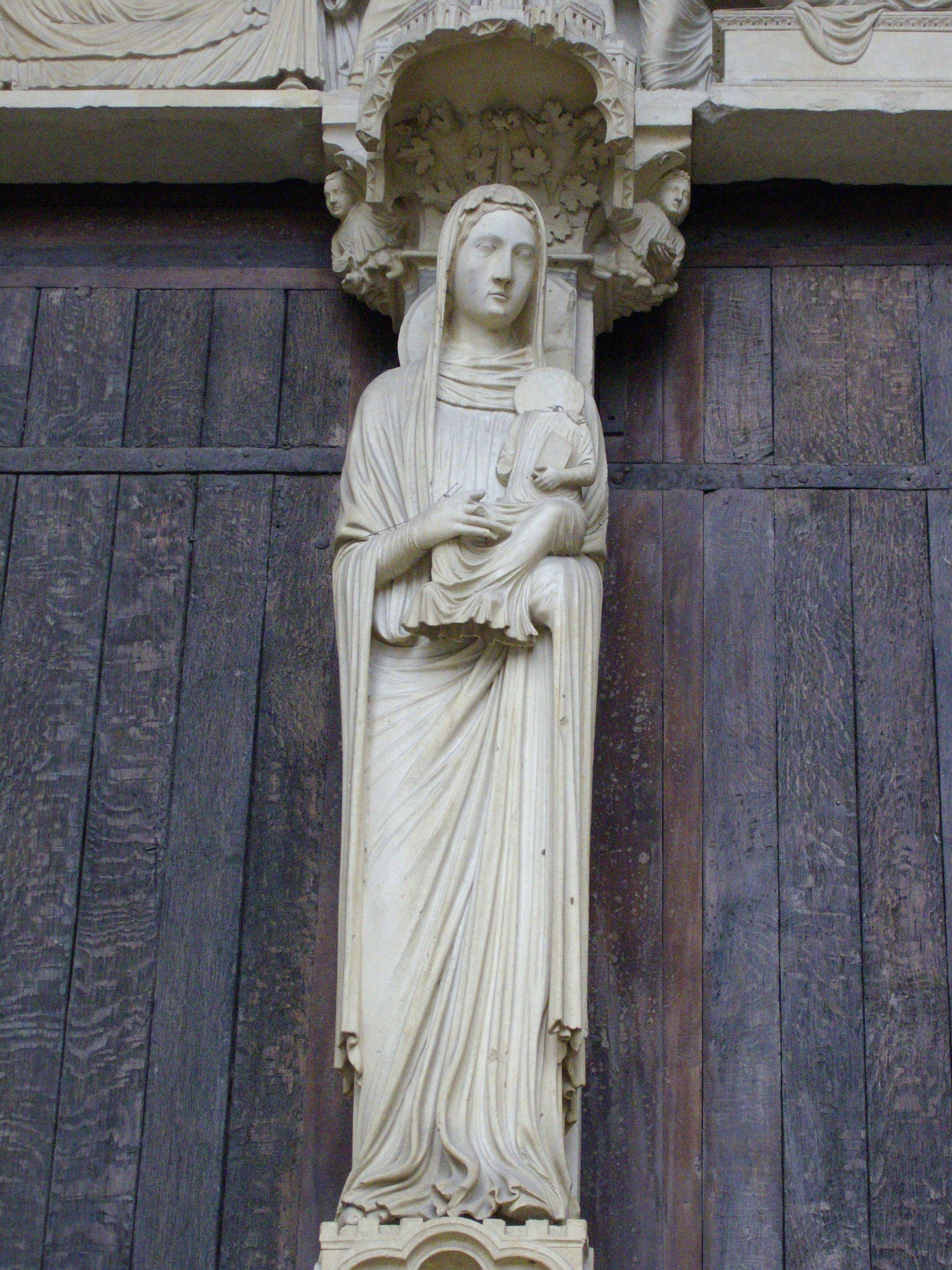 North porch of the Chartres Cathedral in Chartres (France)